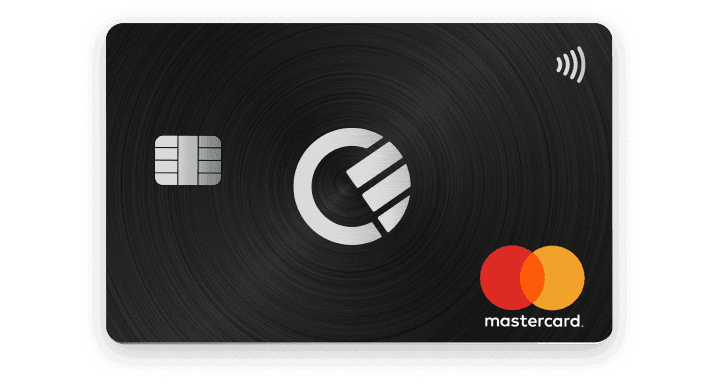 Curve card front - Black